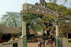 St. Thomas High School